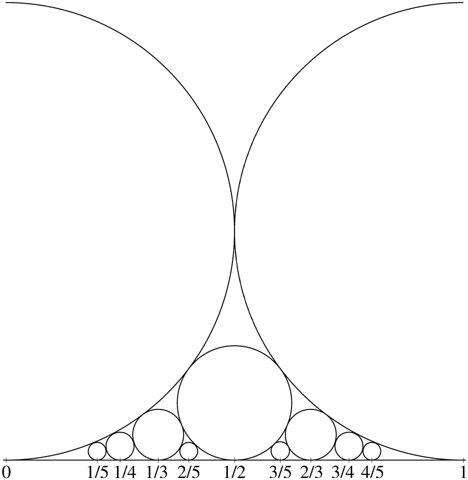 Ford circles. A circle rests upon each fraction in lowest terms. The ones shown are for the fractions 0/1, 1/1, 1/2, 1/3, 2/3, 1/4, 3/4, 1/5, 2/5, 3/5, 4/5. Each circle will touch, but not cross, the line and some neighboring circles. Fractions with the same denominator have circles of the same size.